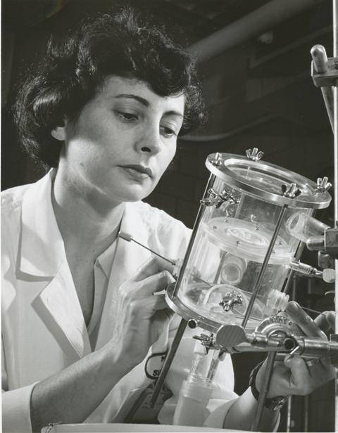 Nina Starr Braunwald, M.D., was one of the first women to train as a general surgeon at New York's Bellevue Hospital, from 1952 to 1955.